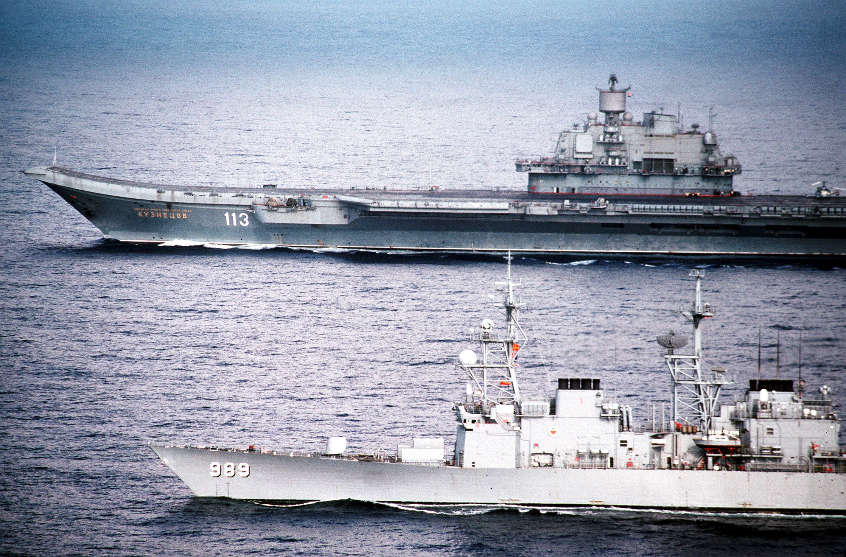 The destroyer USS DEYO (DD 989), foreground, steams off the port side of the Soviet aircraft carrier ADMIRAL FLOTA SOVETSKOGO SOYUZA KUZNETSOV in the waters south of Italy. The ADMIRAL FLOTA SOVETSKOGO SOYUZA KUZNETSOV is en route to duty with the Soviet Northern Fleet.